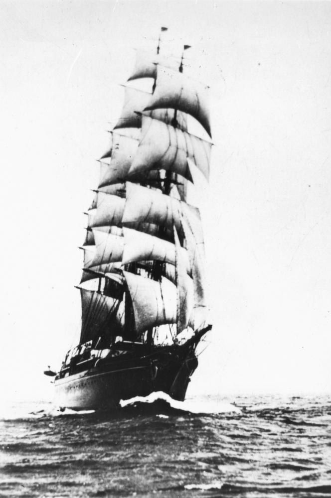 Sea Cloud (ship) The Sea Cloud was built in 1931 formerly known as Hussar. The owner was an American, Mrs. Hutton. (Description supplied with the photograph.).